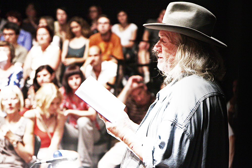 Ivan Martin Jirous, Authors' Reading Month 2010, Brno, Czech Republic, photo by David Konecny